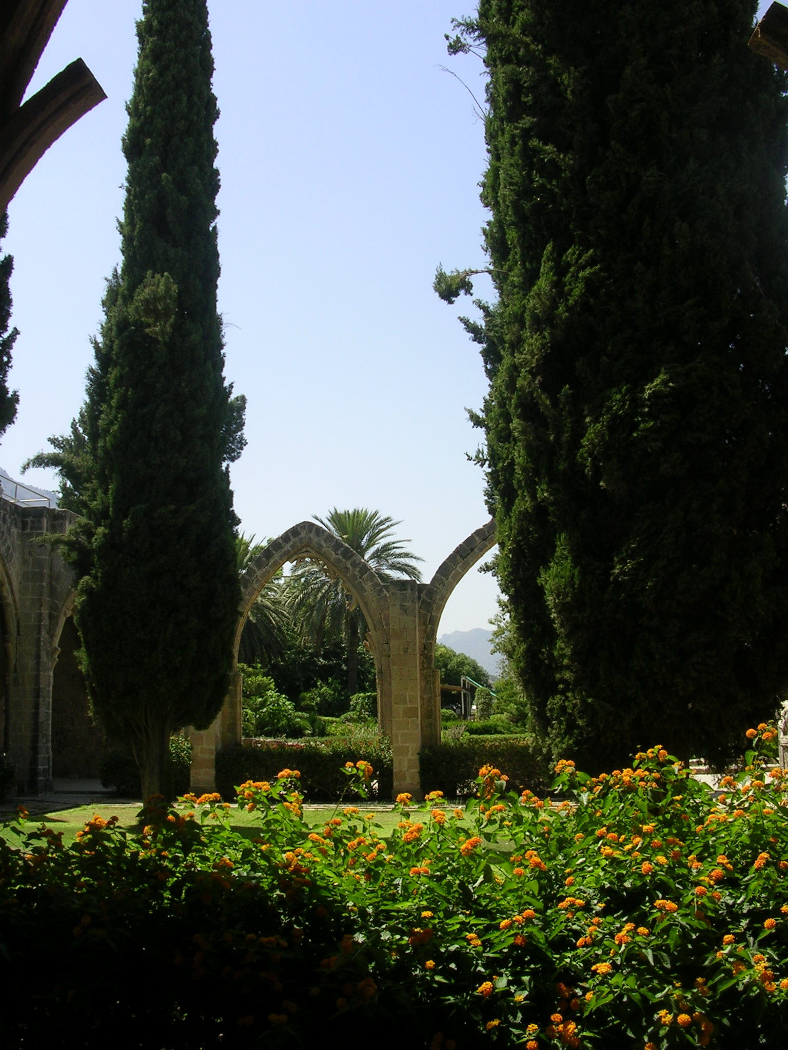 Bellapais Monastery inner court, Kyrenia, North Cyprus. Author: Atak Kara